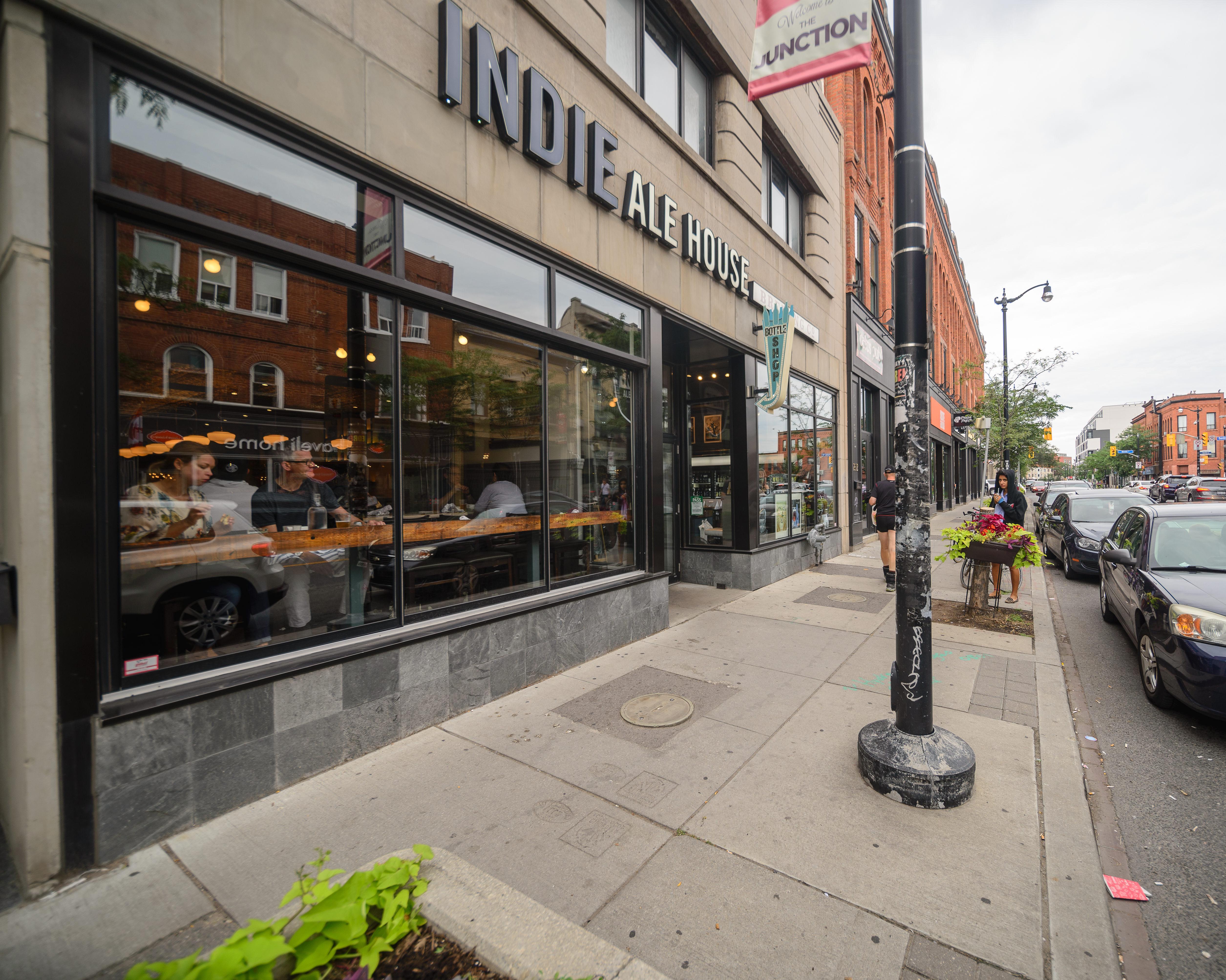 Indie Alehouse in The Junction, Toronto.